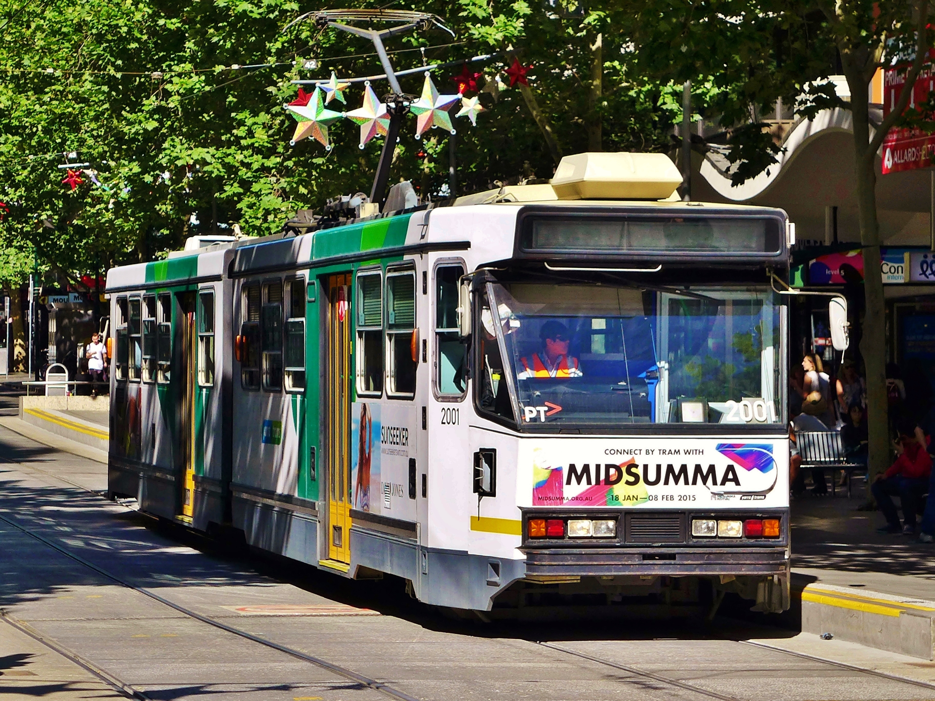 B1 class tram no 2001 at the Swanston Street stop in Bourke Street with a route 86 service from Bundoora RMIT to Waterfront City Docklands in Melbourne, Australia.